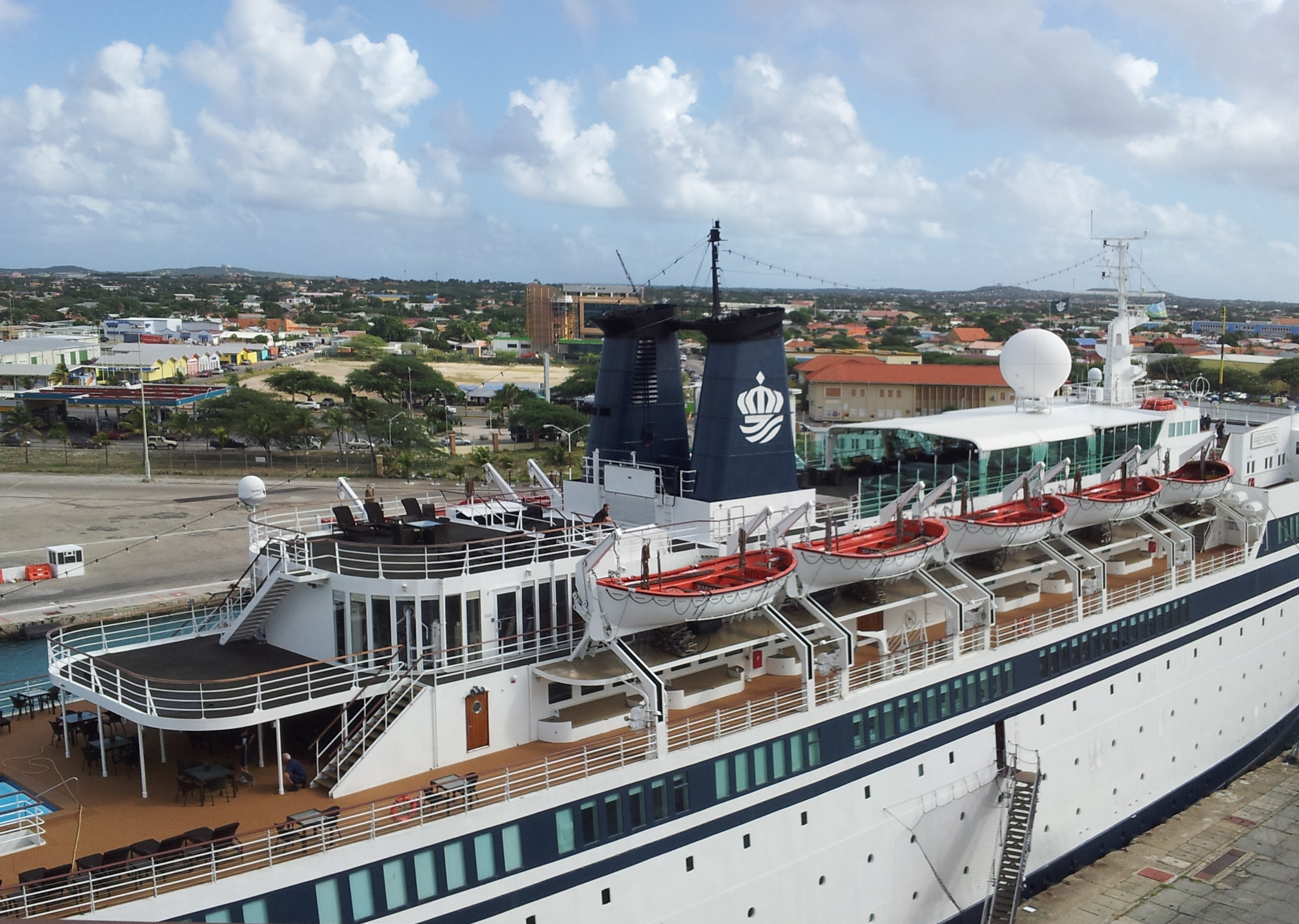 View of the starboard side upper decks of the Scientology cruise ship Freewinds, birthed in Oranjestad, Aruba